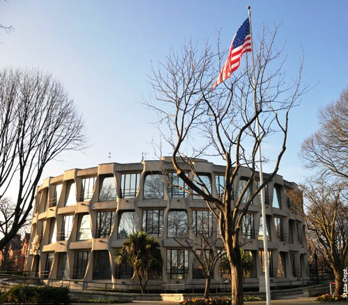 The chancery building of the United States Embassy in Ballsbridge, Dublin 4, Republic of Ireland.